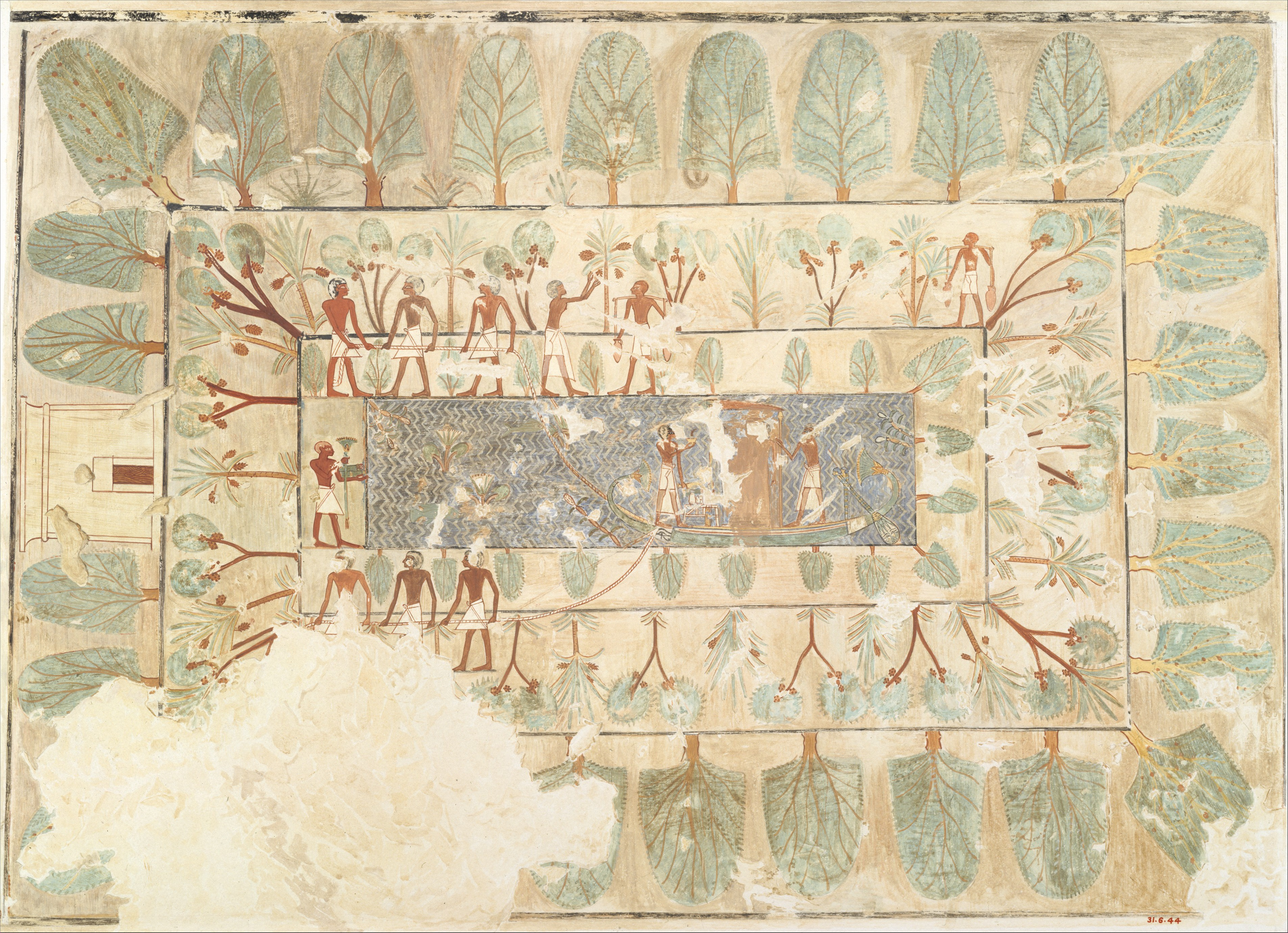 Facsimile, Rekhmire (TT 100), lake, garden